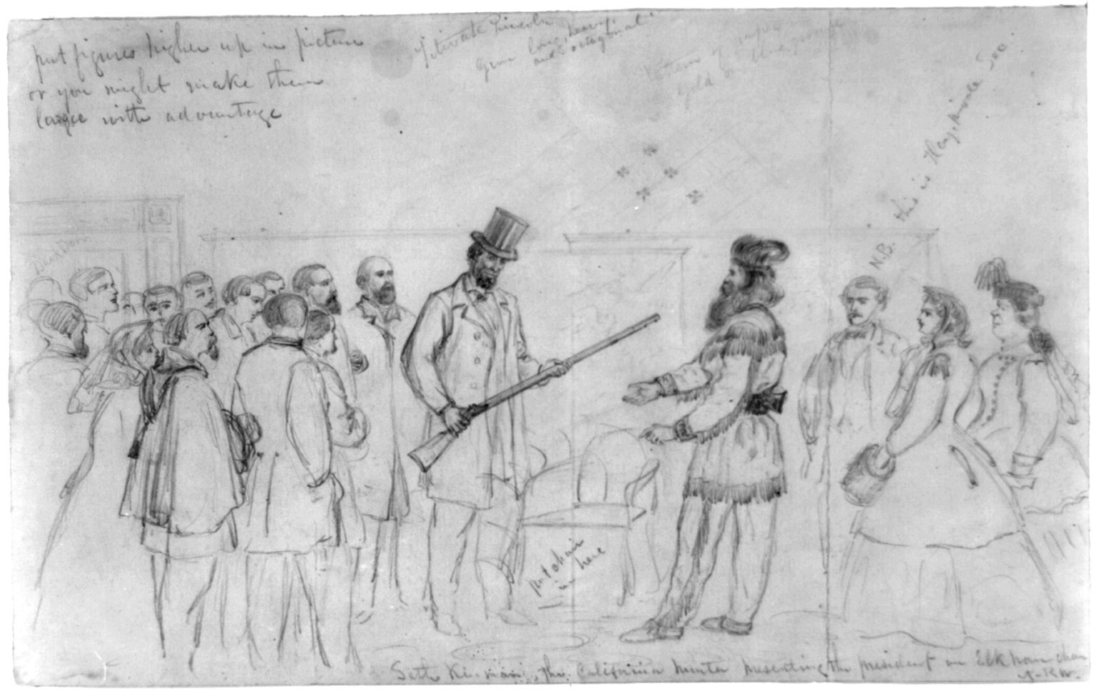 Contemporary drawing of Abe Lincoln meeting Seth Kinman. AL examines SK's rifle as SK presents a chair to AL.